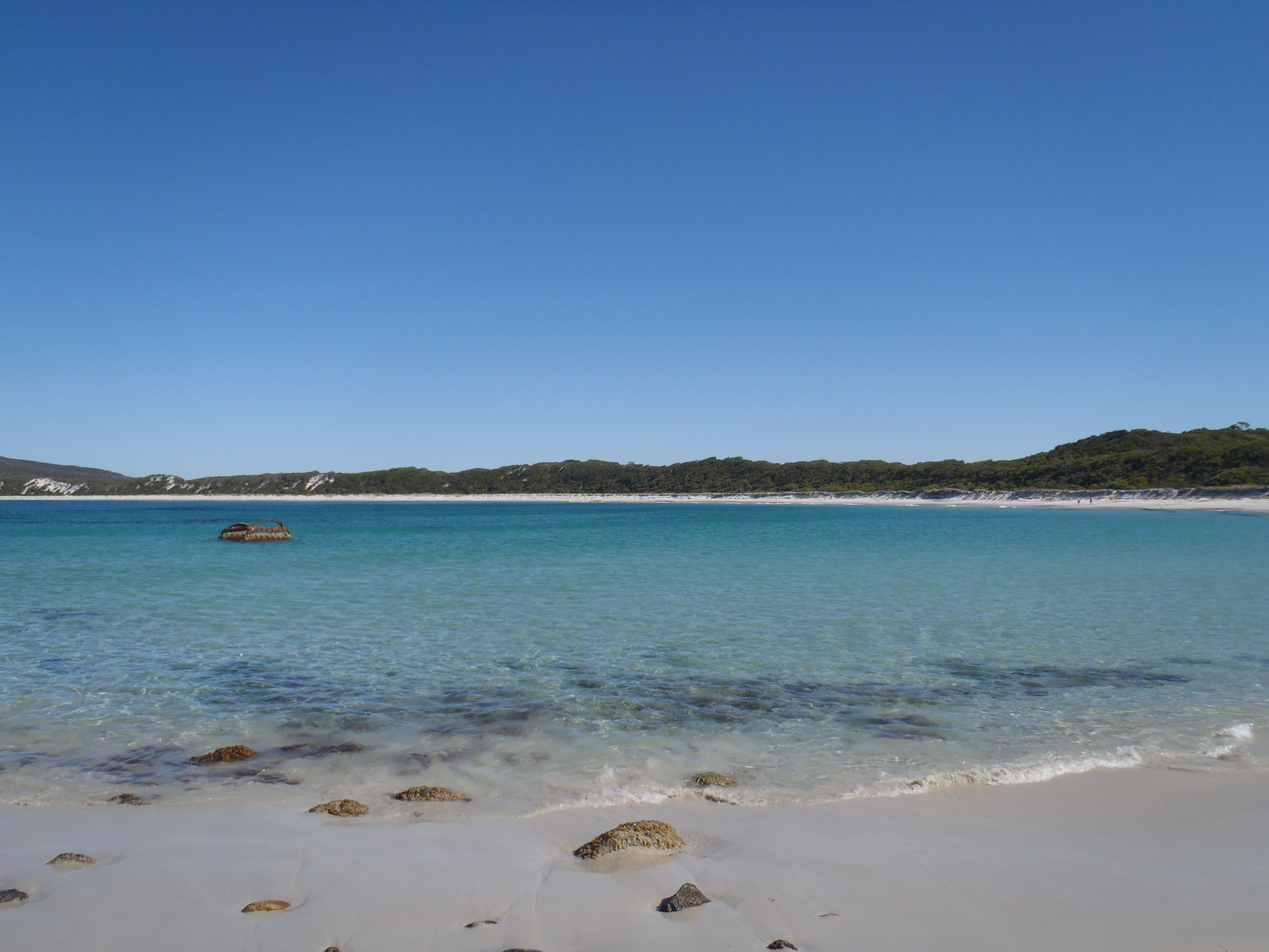 gull rock beach at gull rock national park